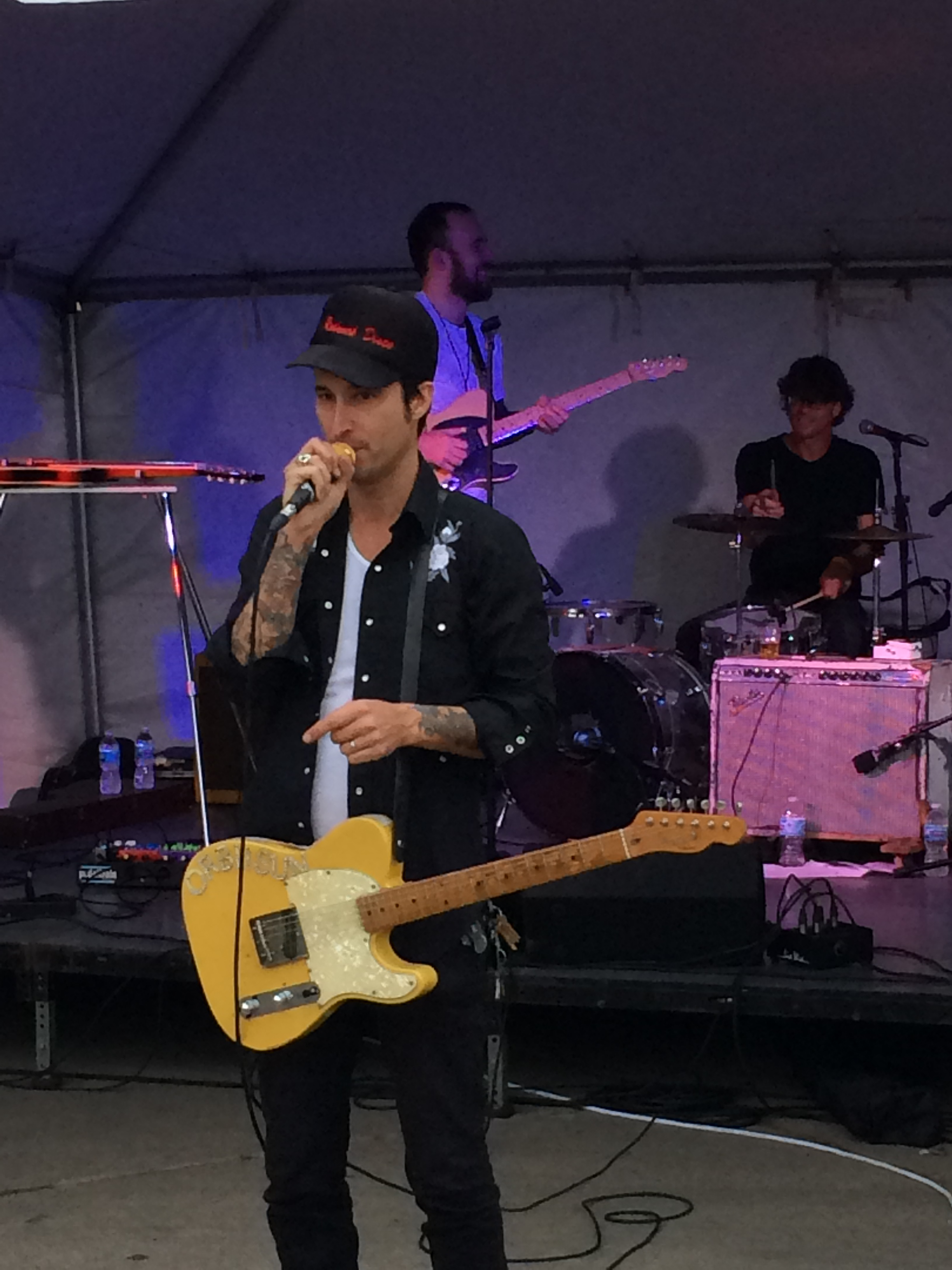 Performing with The Orbitsuns at the 6th Annual Detroit Fall Beer Festival in Eastern Market, Detroit on October 24, 2014